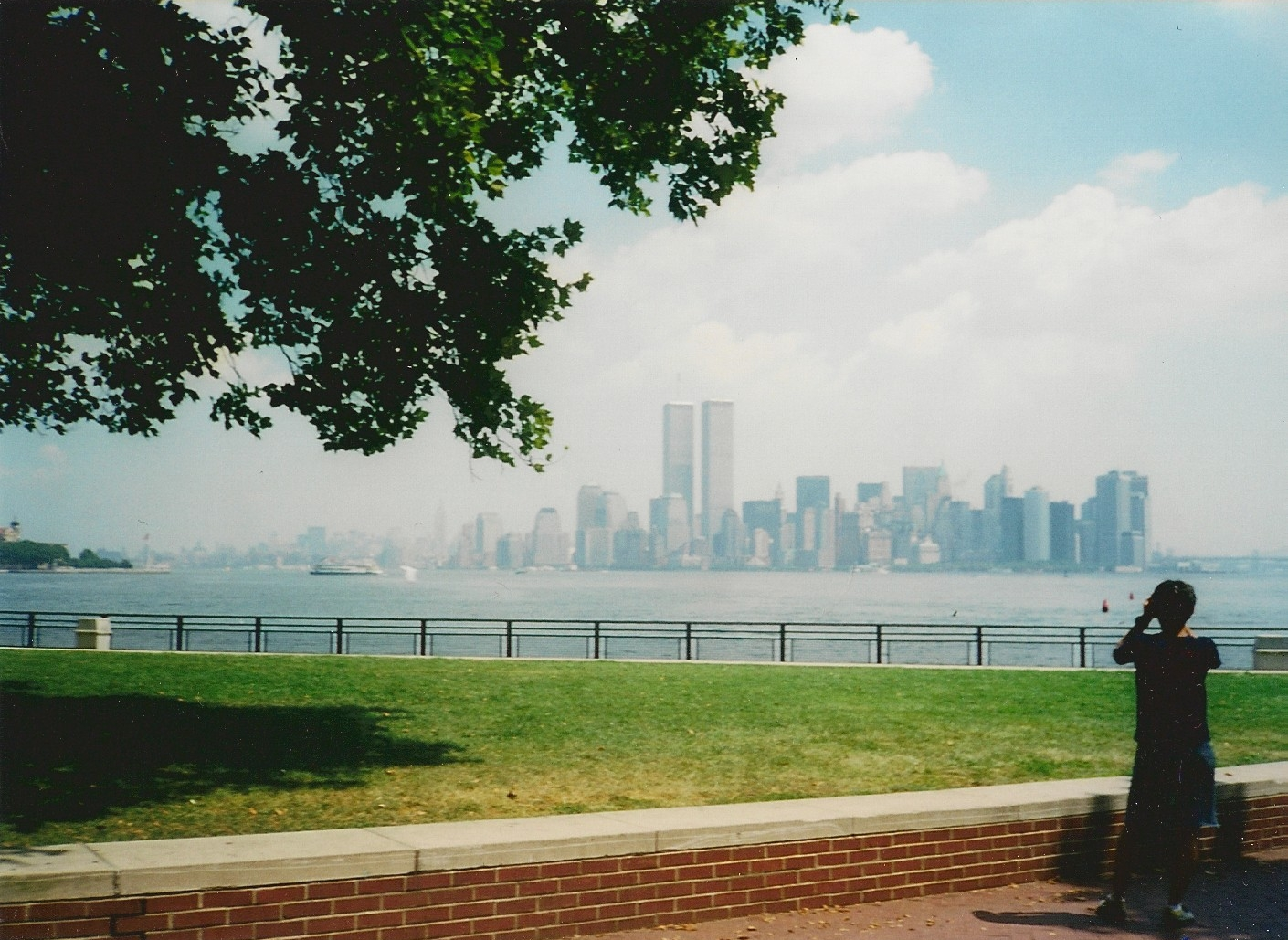 A cityscape from Liberty Island in New York City, New York (United States).